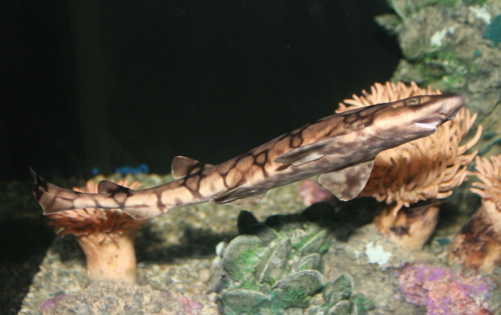 Chain catshark (Scyliorhinus retifer) at the National Aquarium, Washington D.C.